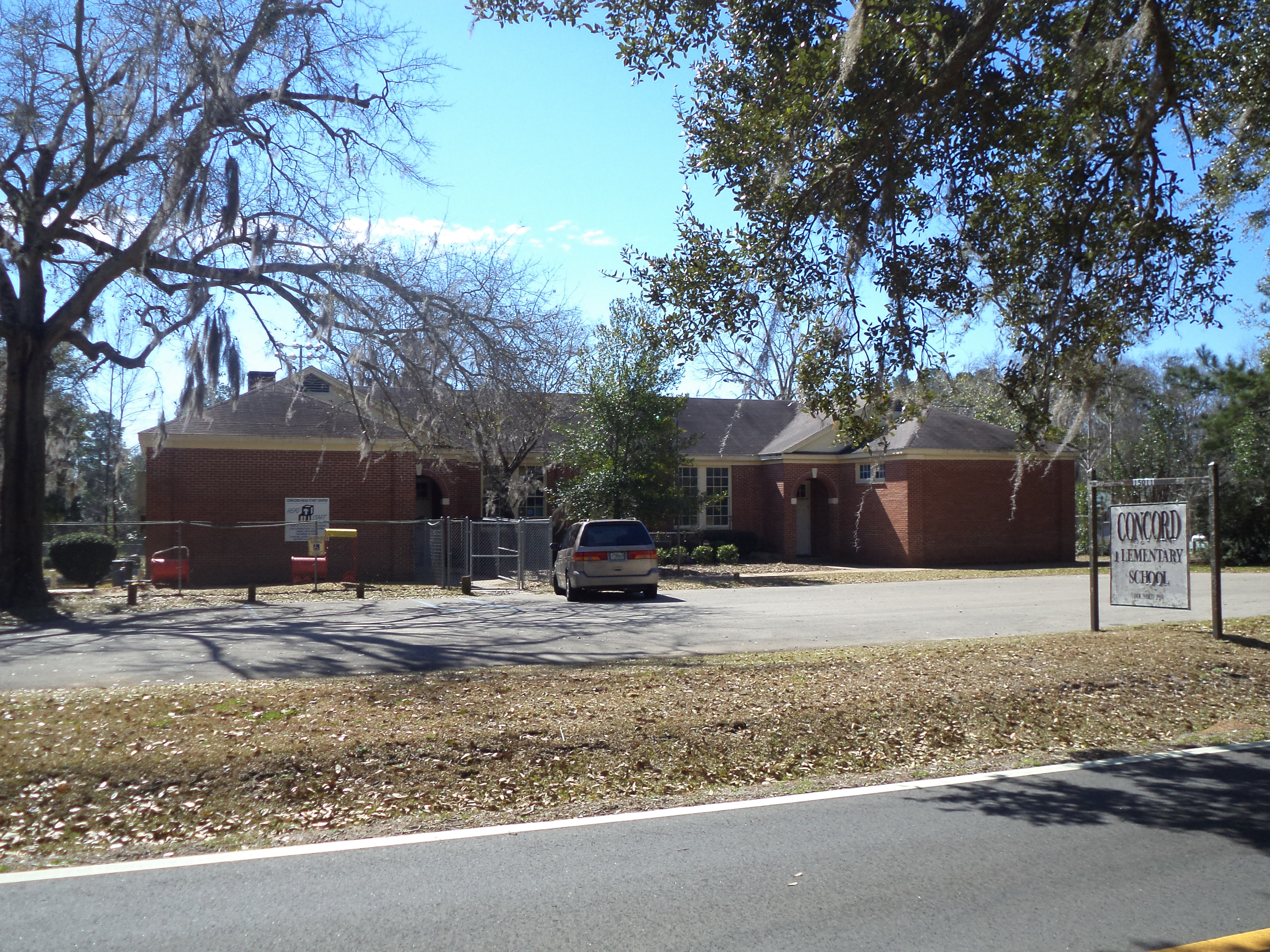 Concord Elementary School, Miccosukee, Leon County, Florida. Former elementary school, now building for the park.